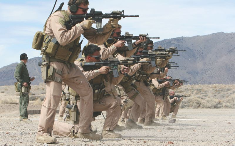 Marines and sailors with a company from 2nd Marine Special Operations Battalion, U.S. Marine Corps Forces Special Operations Command, sight in on their targets as they conduct shooting drills as part of their Dynamic Assault package at the Washoe County Regional Shooting Facility in Reno, Nev. U.S. Marine Corps photo by Lance Cpl. Stephen C. Benson.